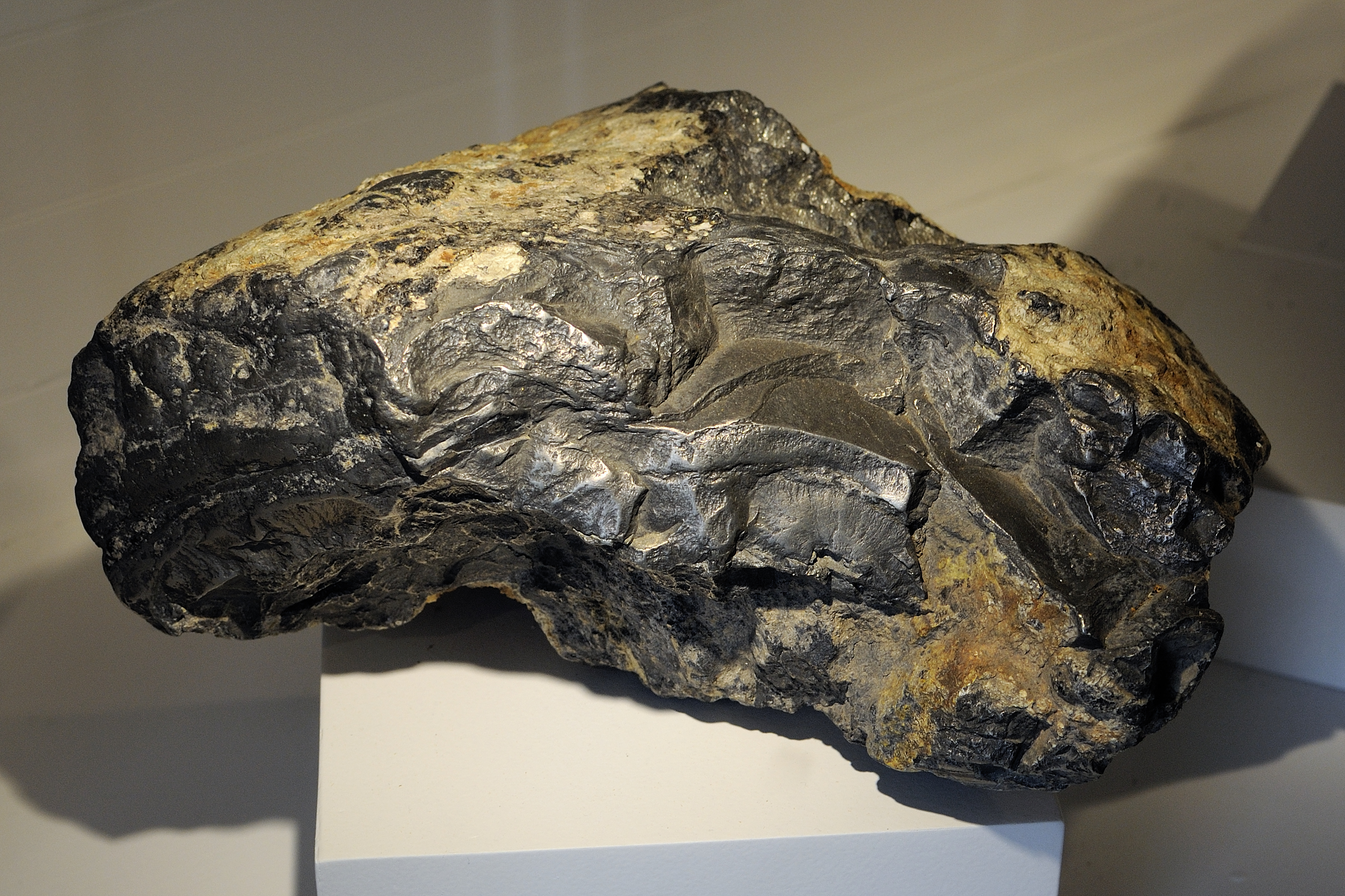 Harvard Museum of Natural History. Antimony. Erskine Creek, Kern Co., CA.